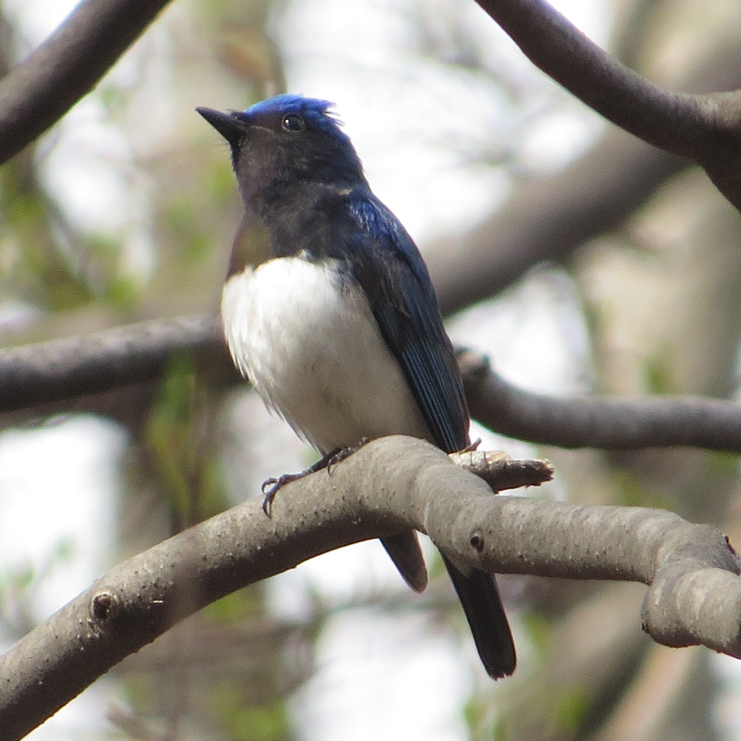 Blue-and-white Flycatcher (Cyanoptila cyanomelana), male in Mount Fujiwara, Inabe, Mie prefecture, Japan.